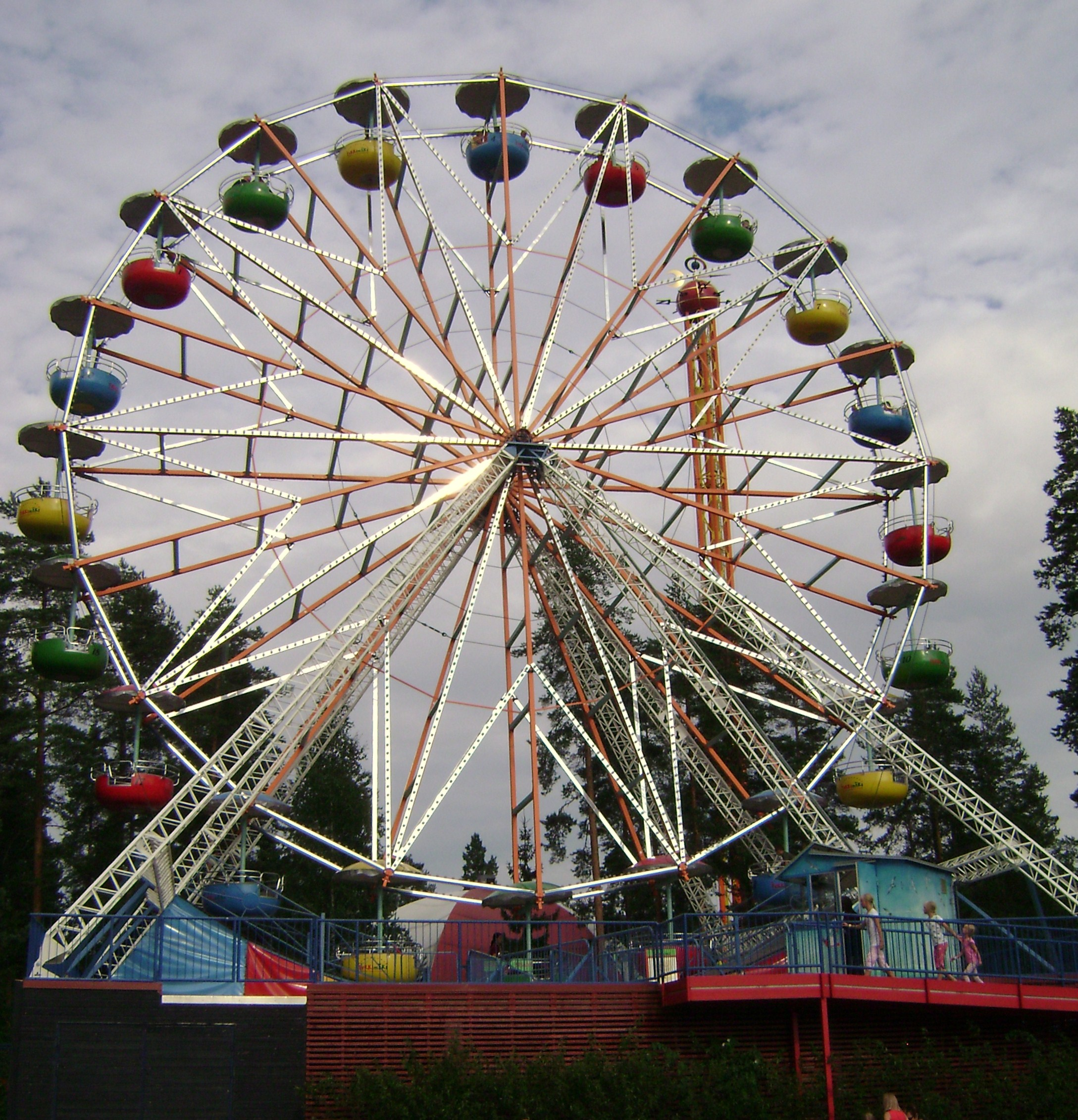 Kouvola-pyörä ferris wheel in Tykkimäki, Kouvola, Finland.